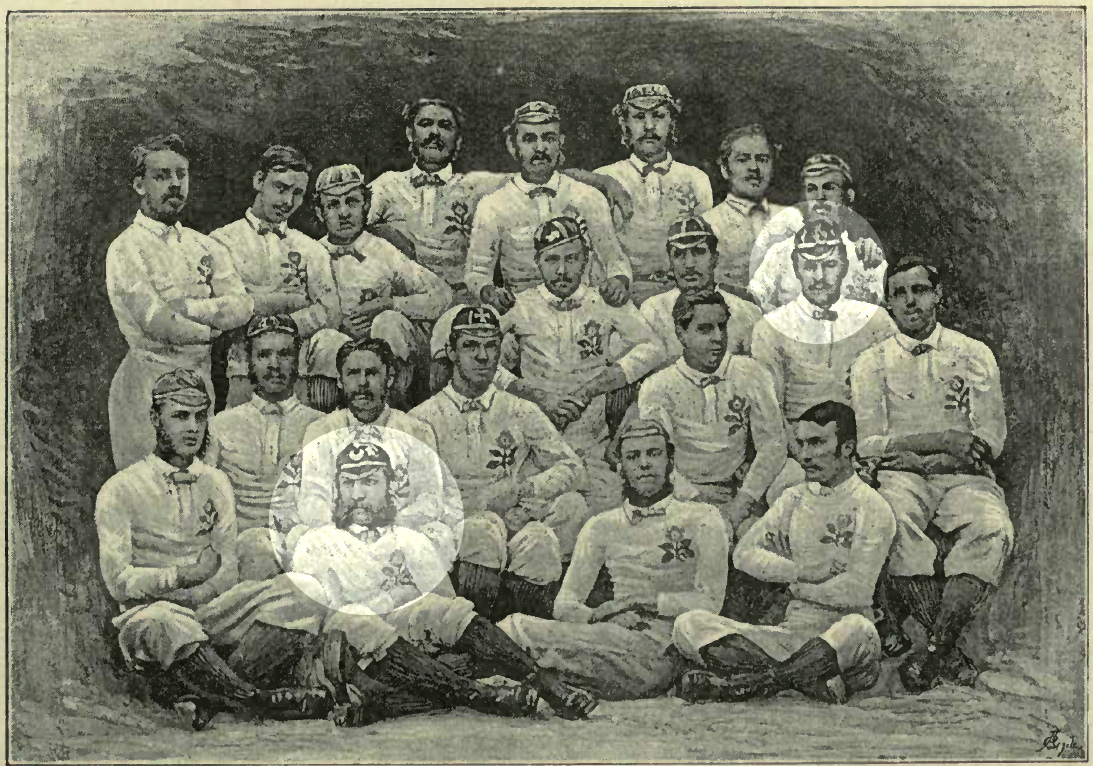 A picture of the first England Rugby side in 1871, with players from the West Kent Football Club highlighted.